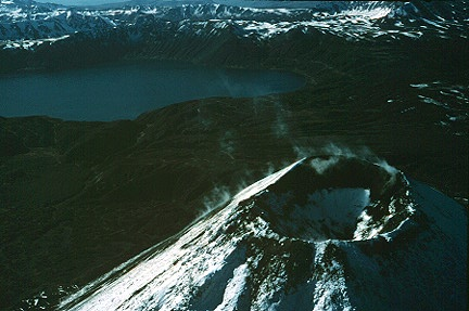 The summit of the Karymsky volcano on Kamchatka, Russia